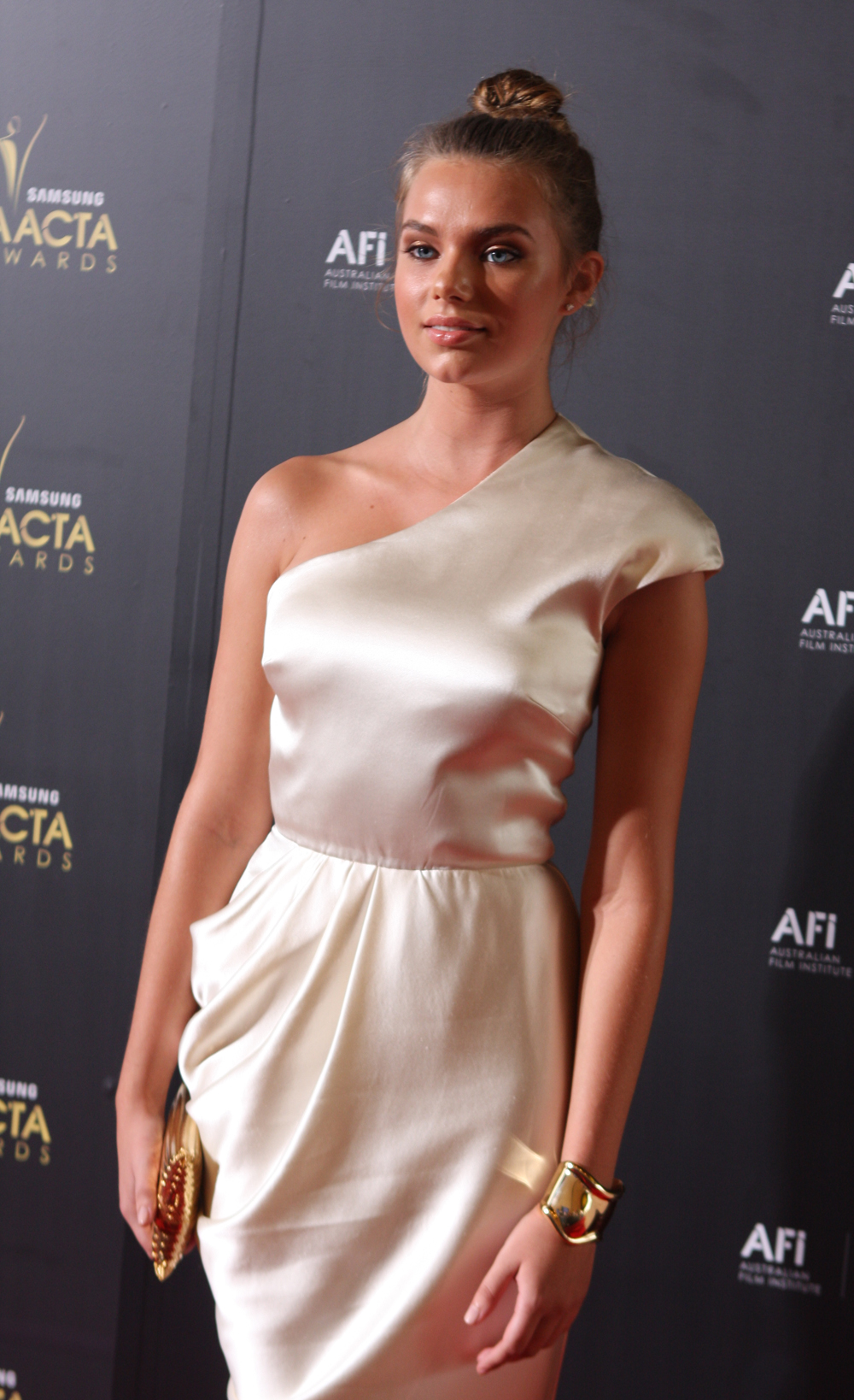 Australian actress Indiana Evans at the AACTA award 2012, Sydney, Australia